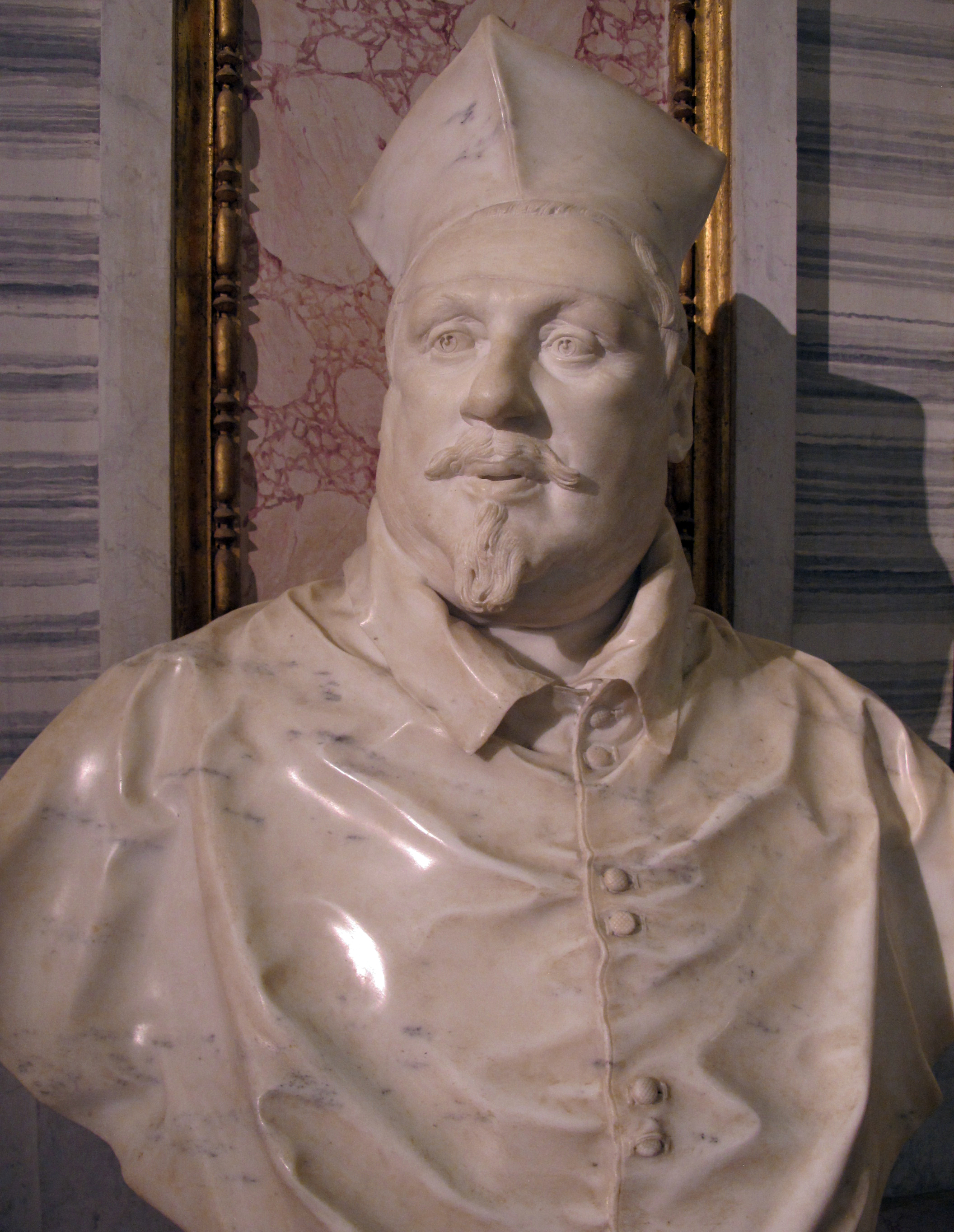 Sculptures in the Galleria Borghese (Rome)